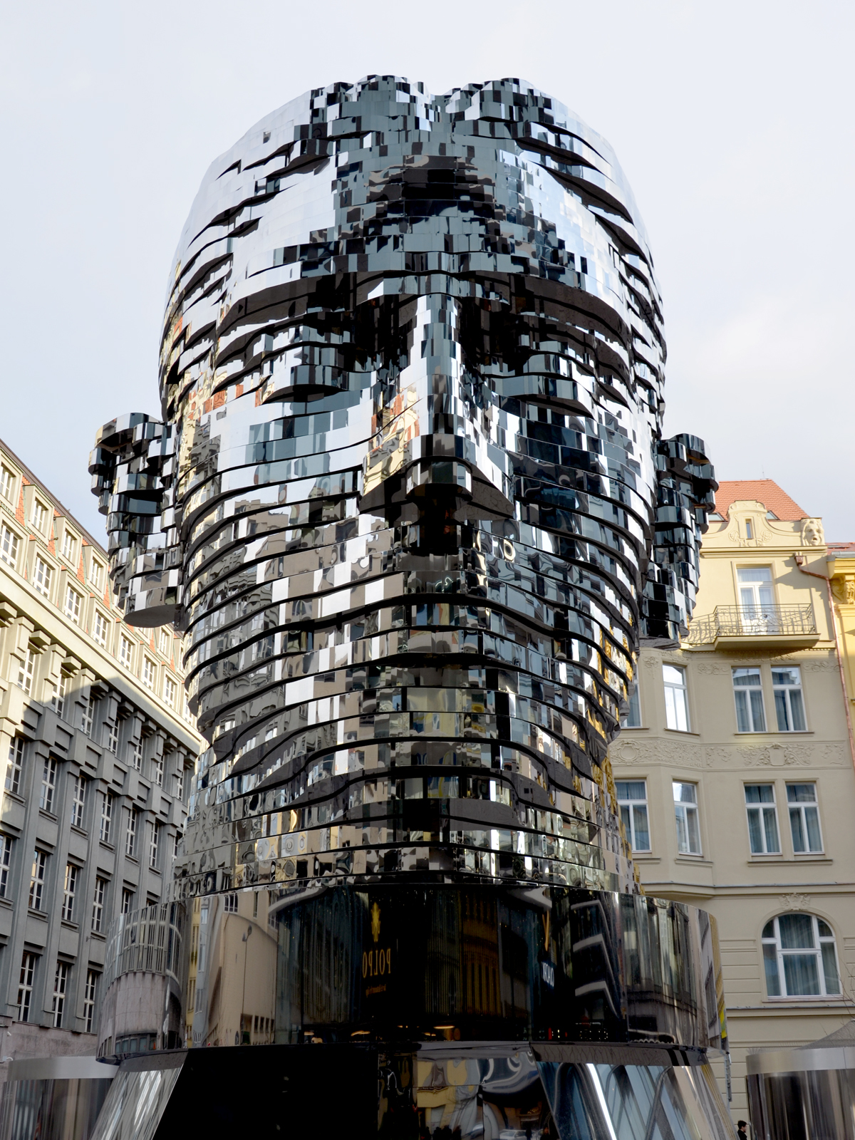 David Černý, kinetic Head of Franz Kafka, Prague